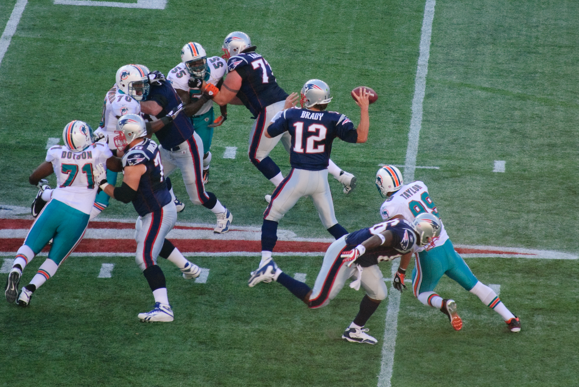 Some of the Miami Dolphins players and Tom Brady and other New England Patriots players at Gillette Stadium on 2009-11-08.